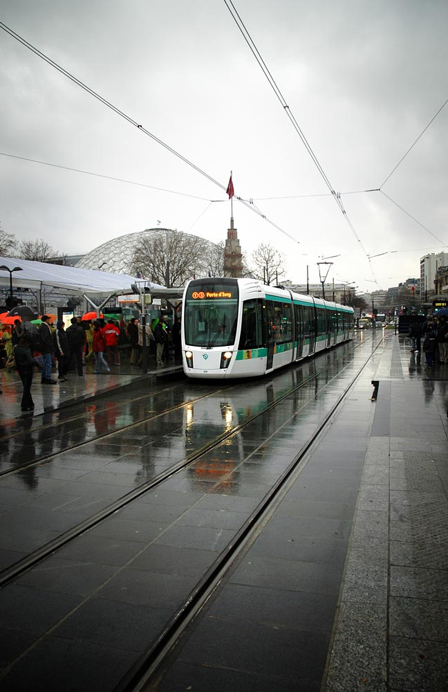 Inauguration of the T3 tramway, Porte de Versailles, Paris